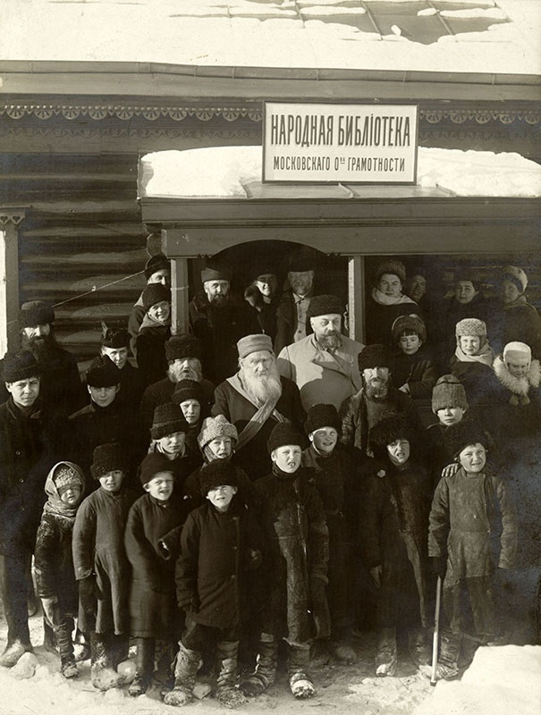 Leo Tolstoy at the opening of the library of the Moscow society of literacy in the village of Yasna Polyana. 31 January 1910. Photo by A. I. Savelyev Leo Tolstoy the peasants next to the Chairman of the Moscow Society literacy by Pavel Dolgorukov; on the porch from left to right: Valentin Bulgakov (Tolstoy's Secretary), a peasant boy, Paul Biryukov (writer, friend and follower of Tolstoy), Maria Shanks (artist, friend Tatyana Sukhotina), Mikhail Sukhotin (husband of the daughter of Tatiana Tolstoy), Alexandra Tolstaya, Tatyana Sukhotina (daughter), Olga Tolstaya (the daughter of Tolstoy), Barbara Theokritoff (friend of Alexandra Tolstoy) Tolstoy and grandchildren: Ilya and Sonia are Thick, Tanya Sukhotina